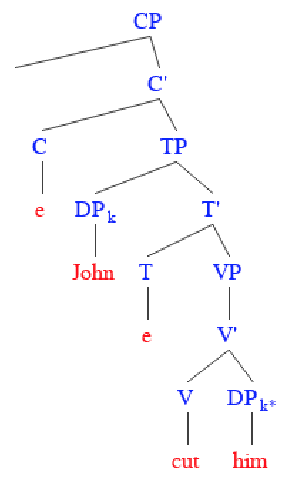 For Pronoun wiki page, showing examples for the binding and antecedents section